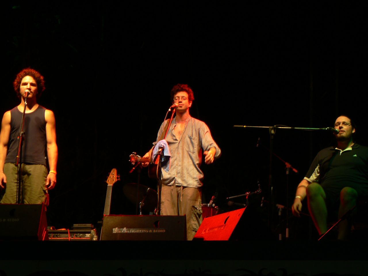 Québécois band performing during Rainforest World Music Festival (RWMF) which was held in Kuching, Sarawak, Malaysia from 7 to 9 July 2006.